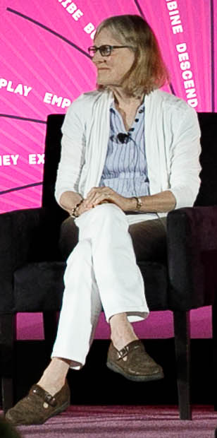 Mary Beth Albright interviews Ann M. Martin and Gale Galligan on the CHildren's Purple Stage at the National Book Festival, August 31, 2019. Photo by Edmond Joe/For the Library of Congress. Note: Privacy and publicity rights for individuals depicted may apply.